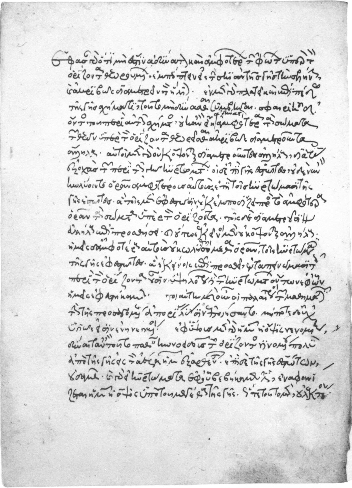 Cleomedes, “On the Circular Motions of the Celestial Bodies”, in a manuscript written by Maximus Planudes. Edinburgh, National Library of Scotland, MS. Adv. 18.7.15, fol. 52v.